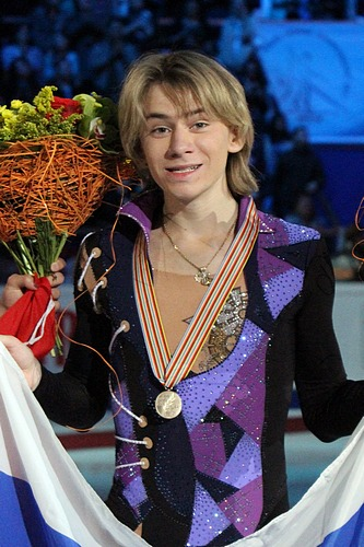 Artur GACHINSKI at the 2011 World Figure Skating Championships